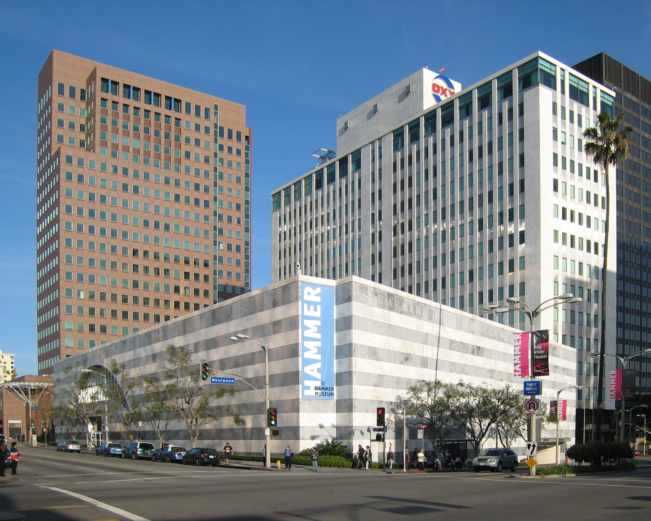 Hammer Museum in Los Angeles, California, USA. Architect Edward Larrabee Barnes.